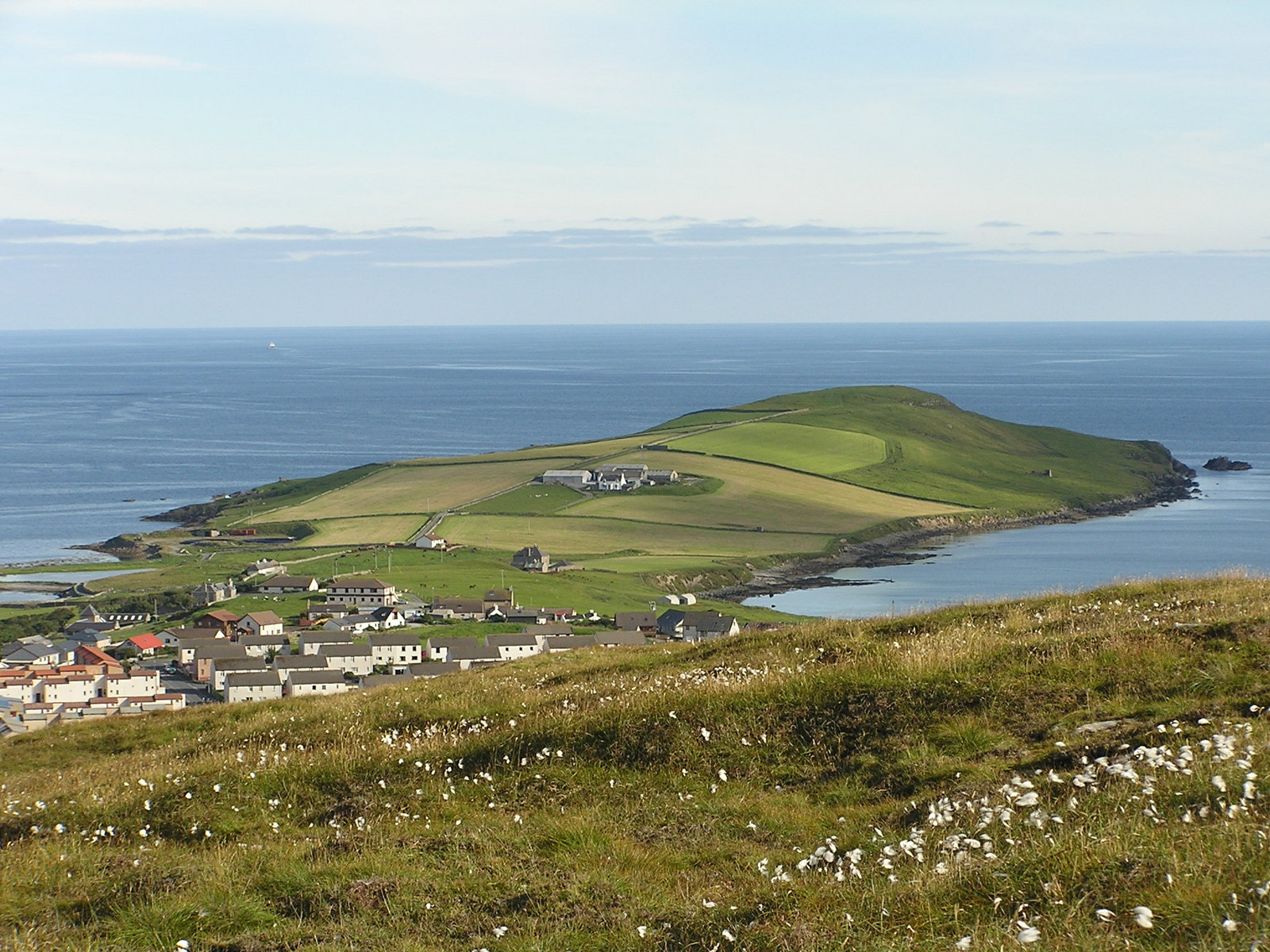 Ness of Sound, seen from Staney Hill